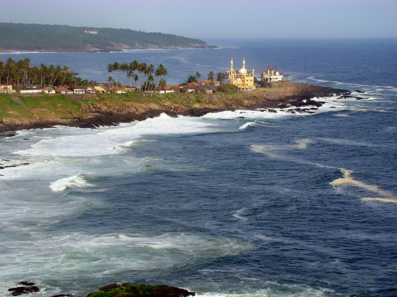 an old one Mosque... found while digging thru my TVM archive. this snap is taken from Kovalam Light house, TVM, Kerala, India.